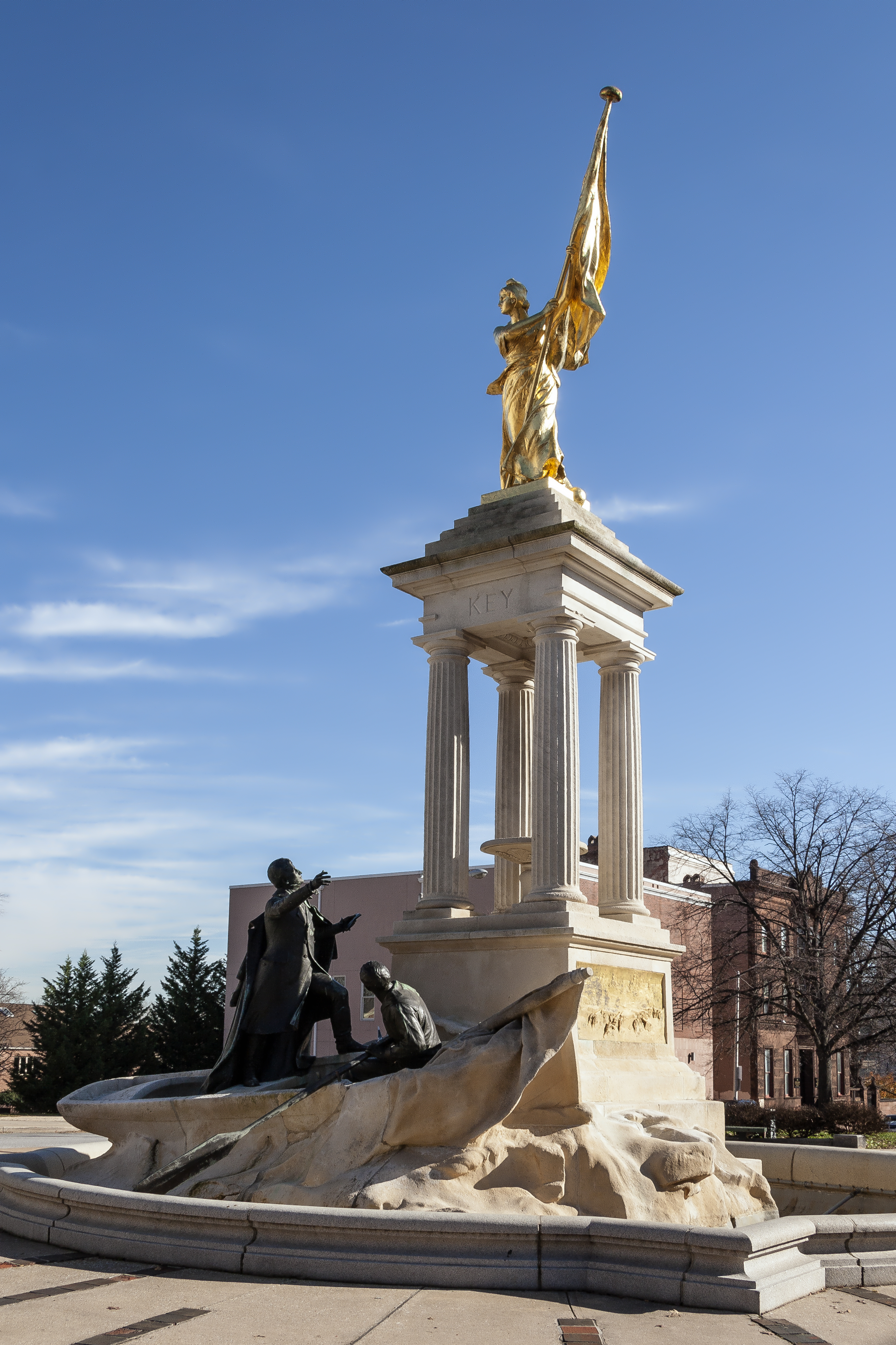 The Francis Scott Key Monument on Eutaw Place in the Bolton Hill Historic District, Baltimore, Maryland, USA. Erected 1911, sculptor Antonin Mercié.